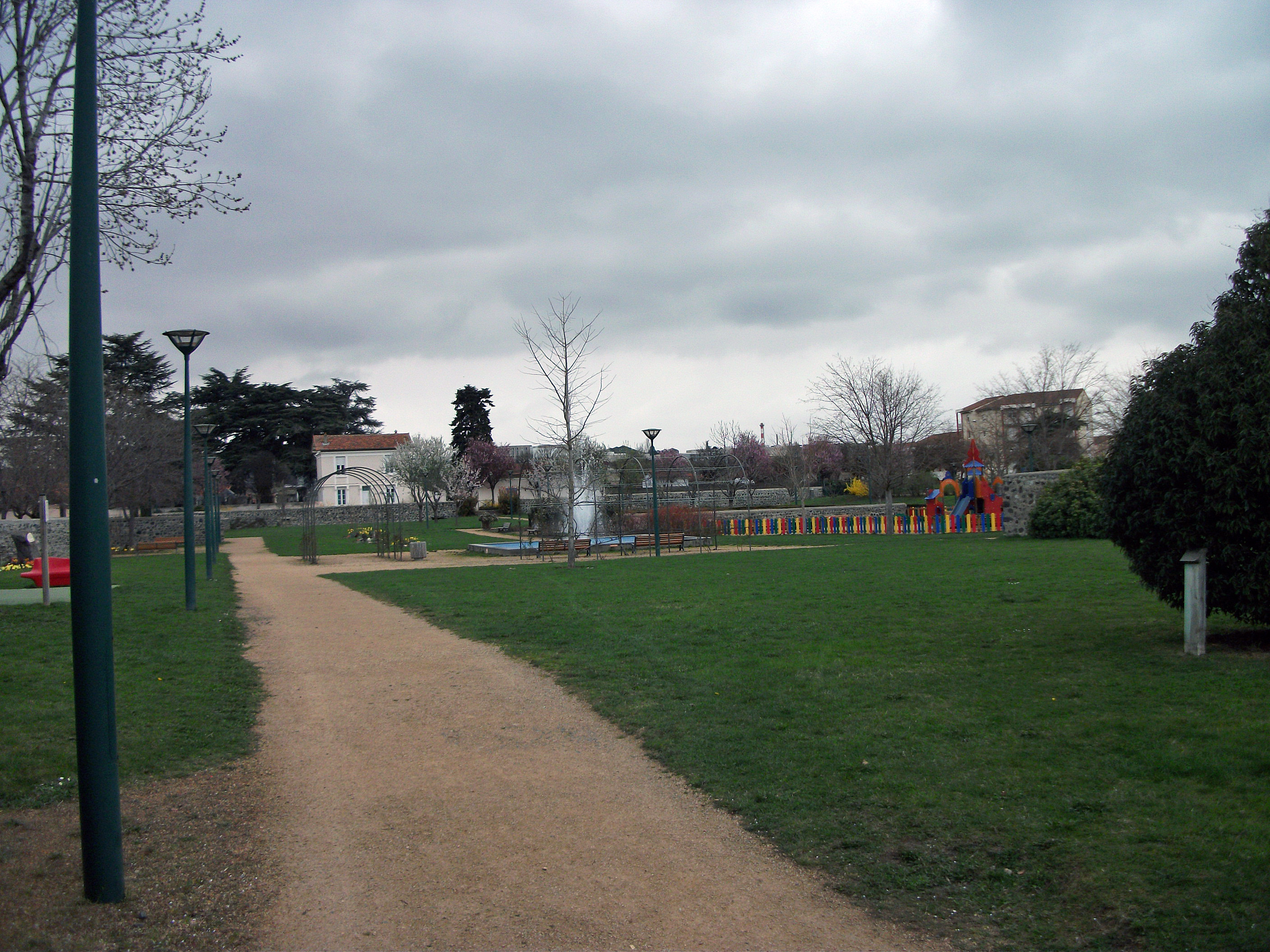 Franck Bayle municipal park in Aubière, Puy-de-Dôme, Auvergne, France, from Jean Curabet Ave